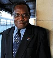 Severo Moto of Equatorial Guinea in Toledo, Spain, 2008. Original image to illustrate Exiled Equatorial Guinea Opposition Leader Arrested for Weapons Trafficking By Ricci Shryock Dakar 16 April 2008